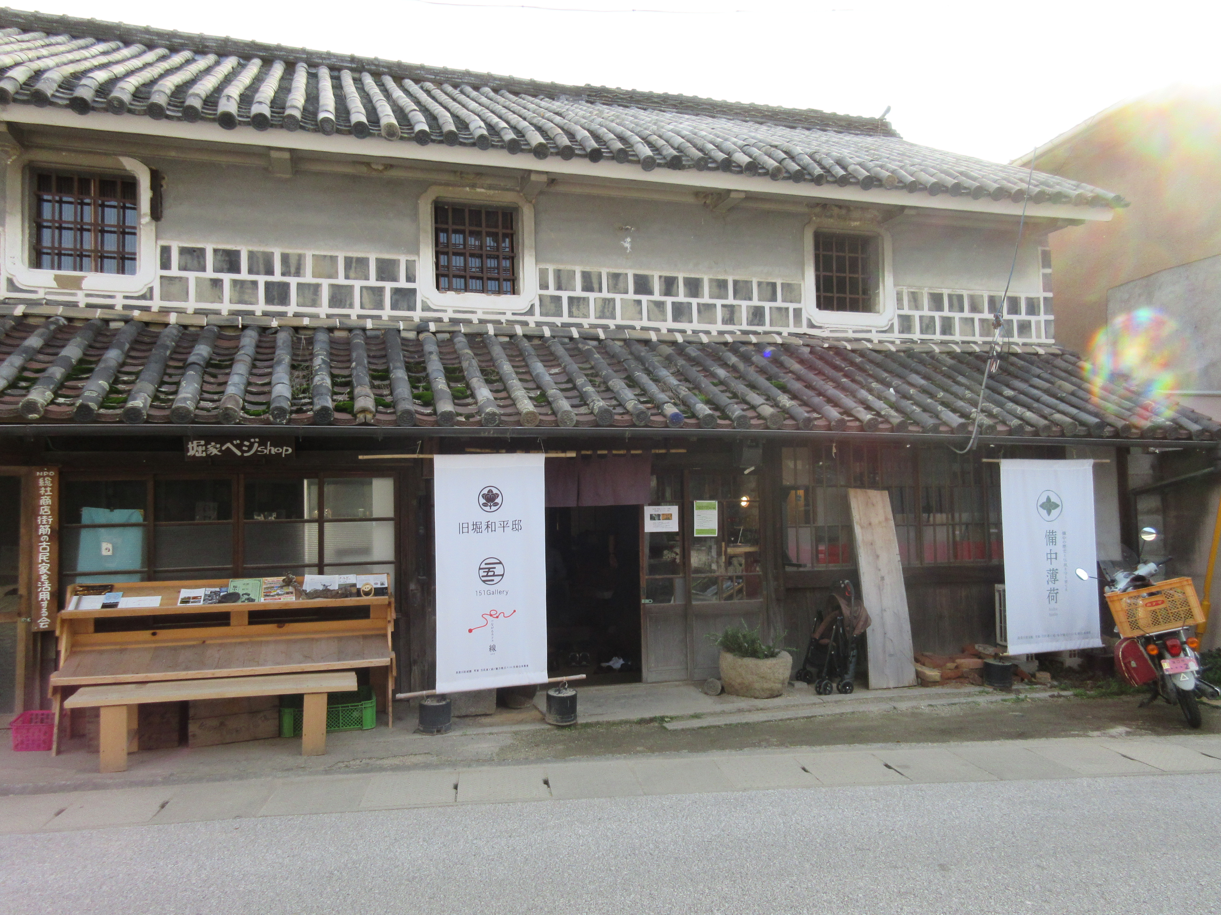 kyuu horiwaheitei